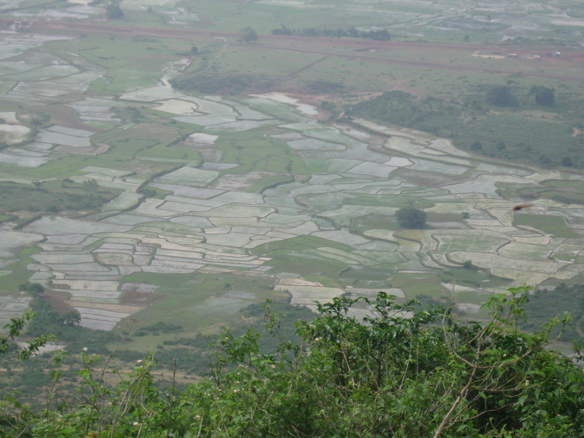 A view from Barunei Hill